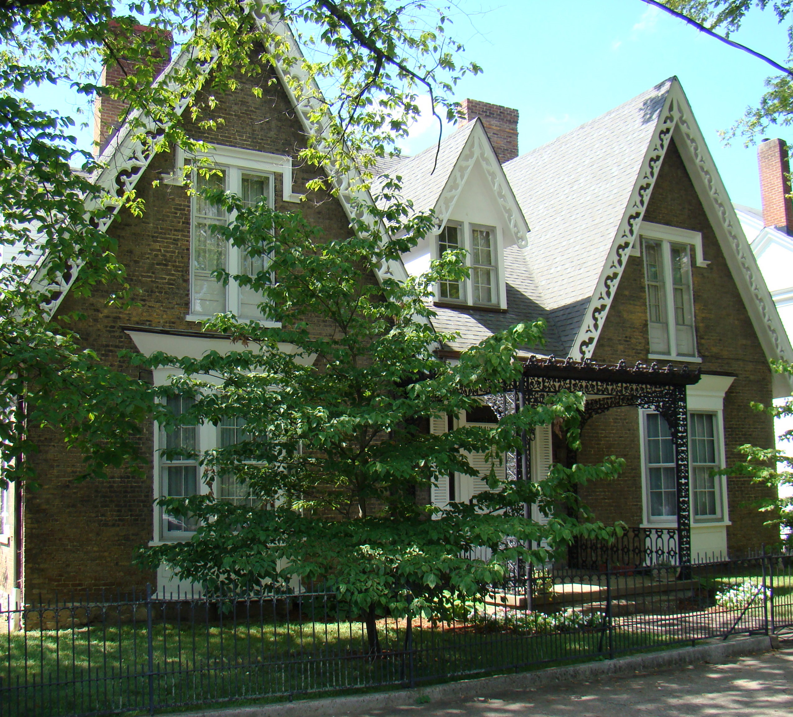 The Bibb-Burnley House is a building located on Wapping Street in Frankfort, Kentucky in the Corner in Celebrities Historic District. The property was added to the US National Register of Historic Places in 1971. The area behind the house was where John Bibb developed a new variety of lettuce.